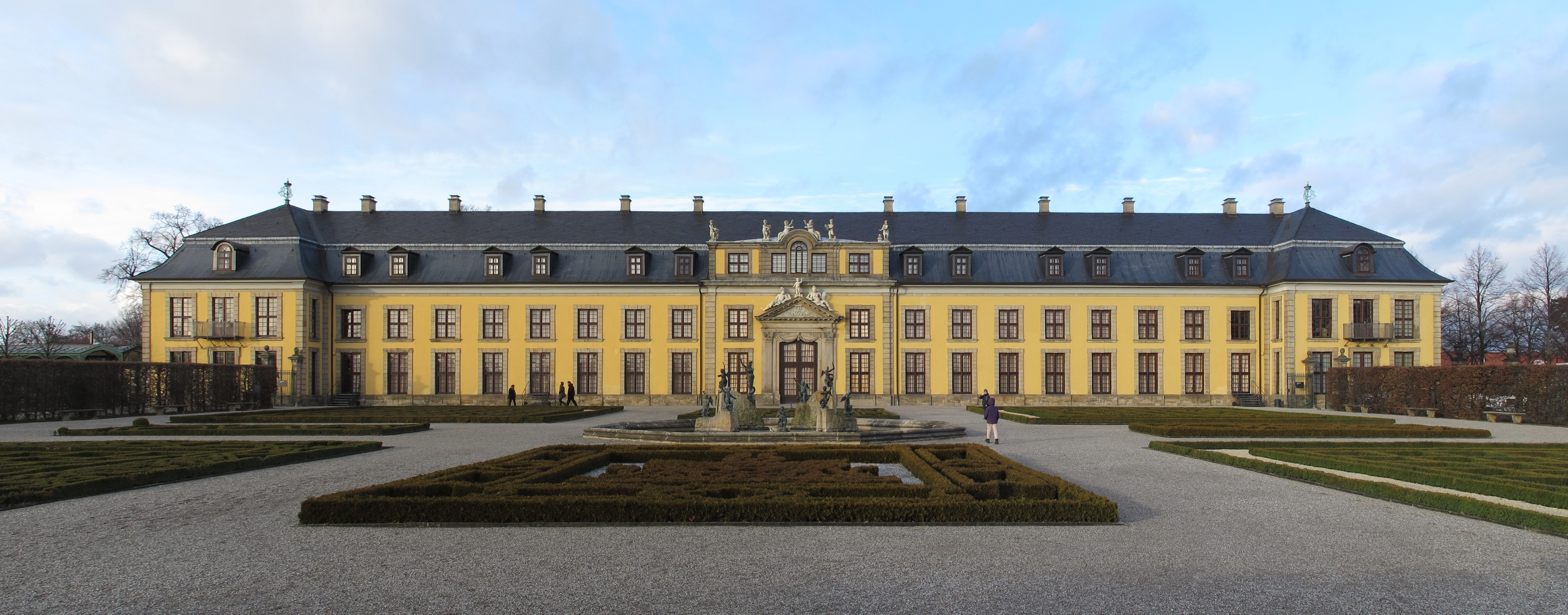 Panorama picture of the gallery building in "Großer Garten" in Hannover-Herrenhausen (Germany), the Neptune Fountain in the foreground